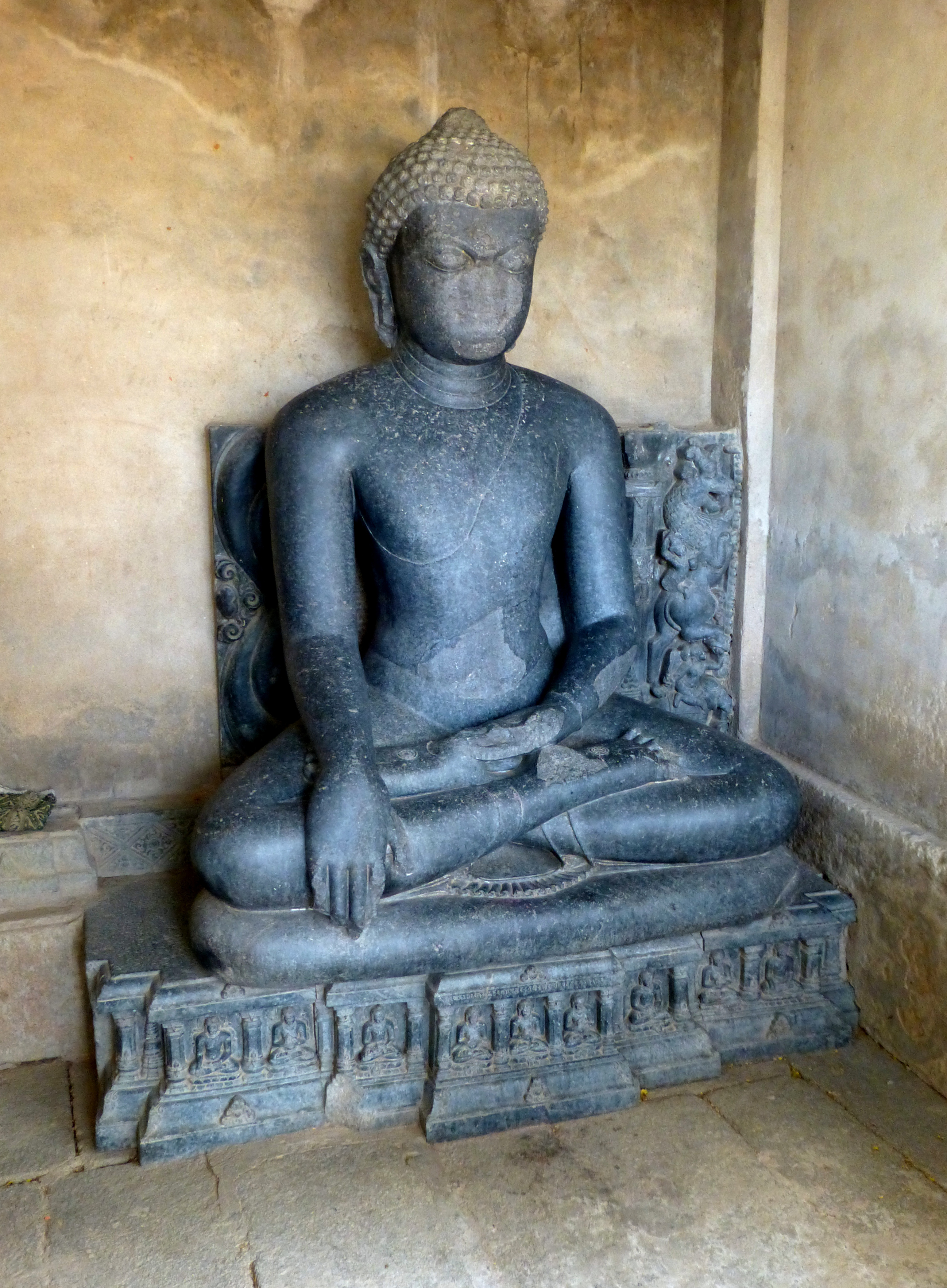 069 Kawa Dol Buddha Statue at Barabar, Bihar Photograph from the Barabar Caves in Bihar taken by Anandajoti.